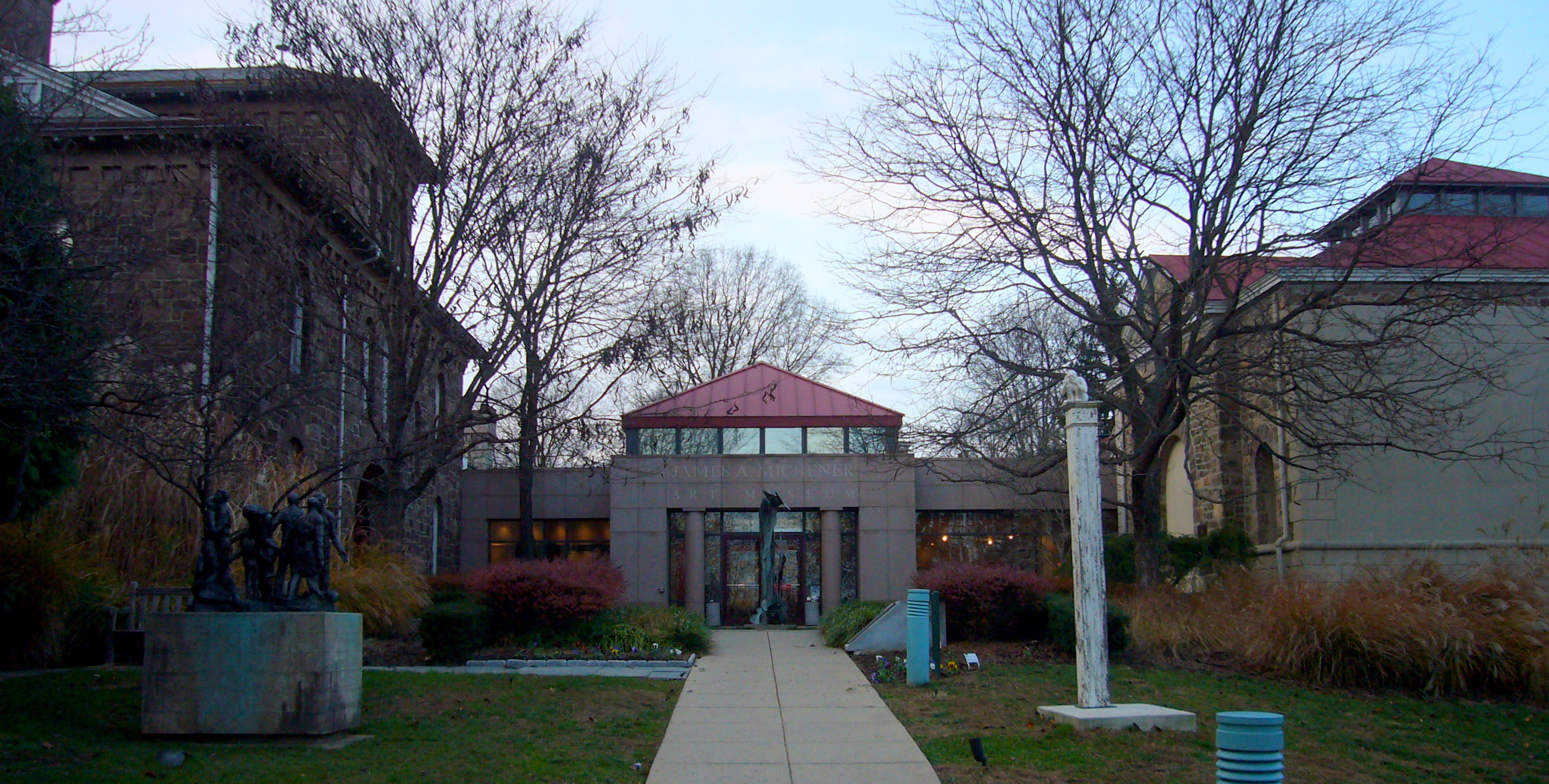 James Michener Art Museum, Doylestown, PA, USA (exterior)